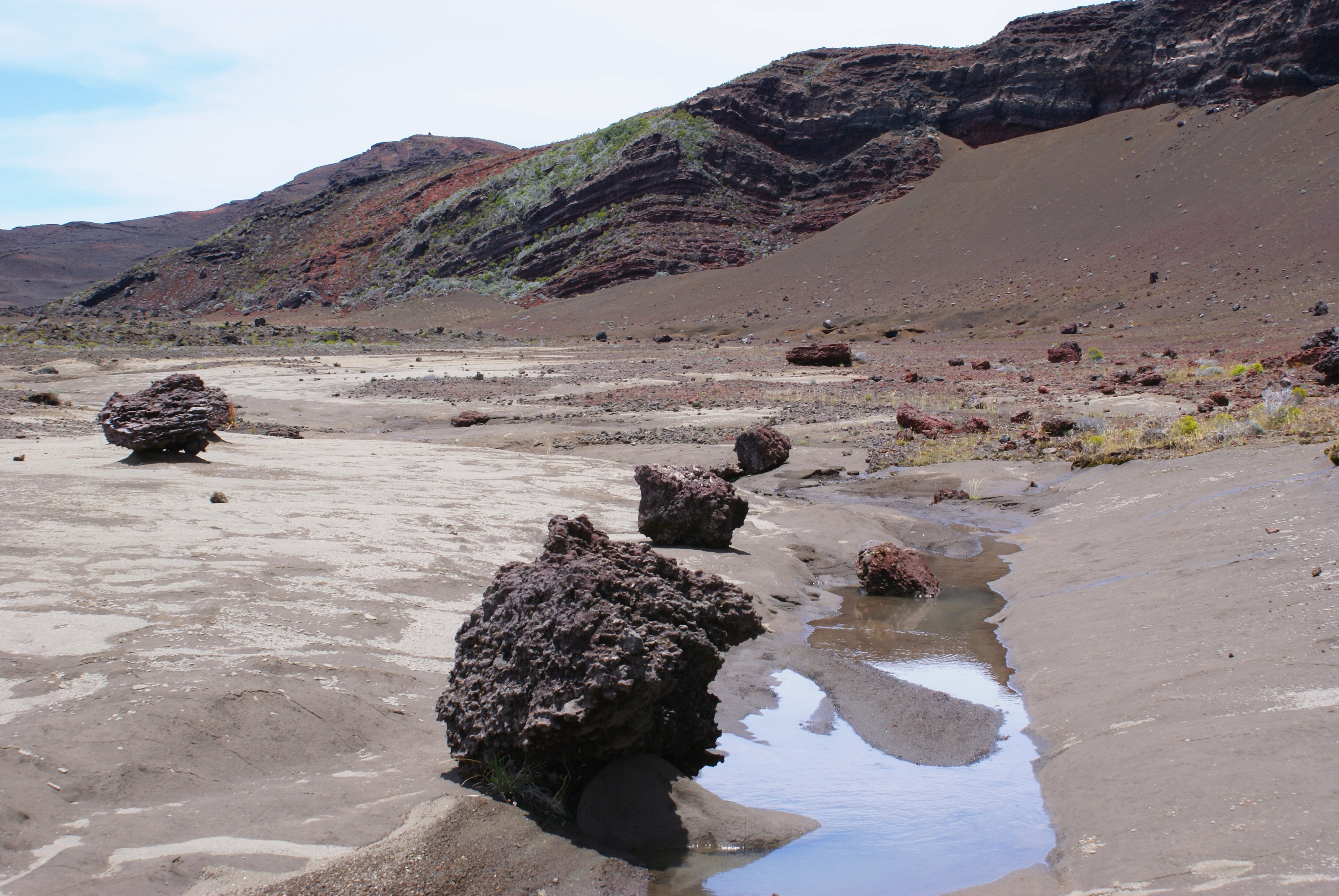 Clay stratum of Bellecombe, 4.700 years old, close to the Piton de la Fournaise volcano on Réunion island, considered as the deposit of the basal blast when the caldeira Enclos Fouqué collapsed.